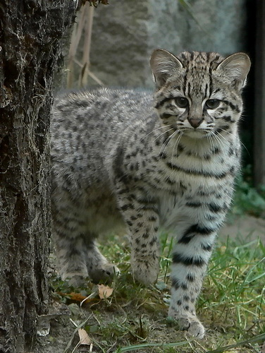 Geoffroy's Cat (Leopardus geoffroyi)